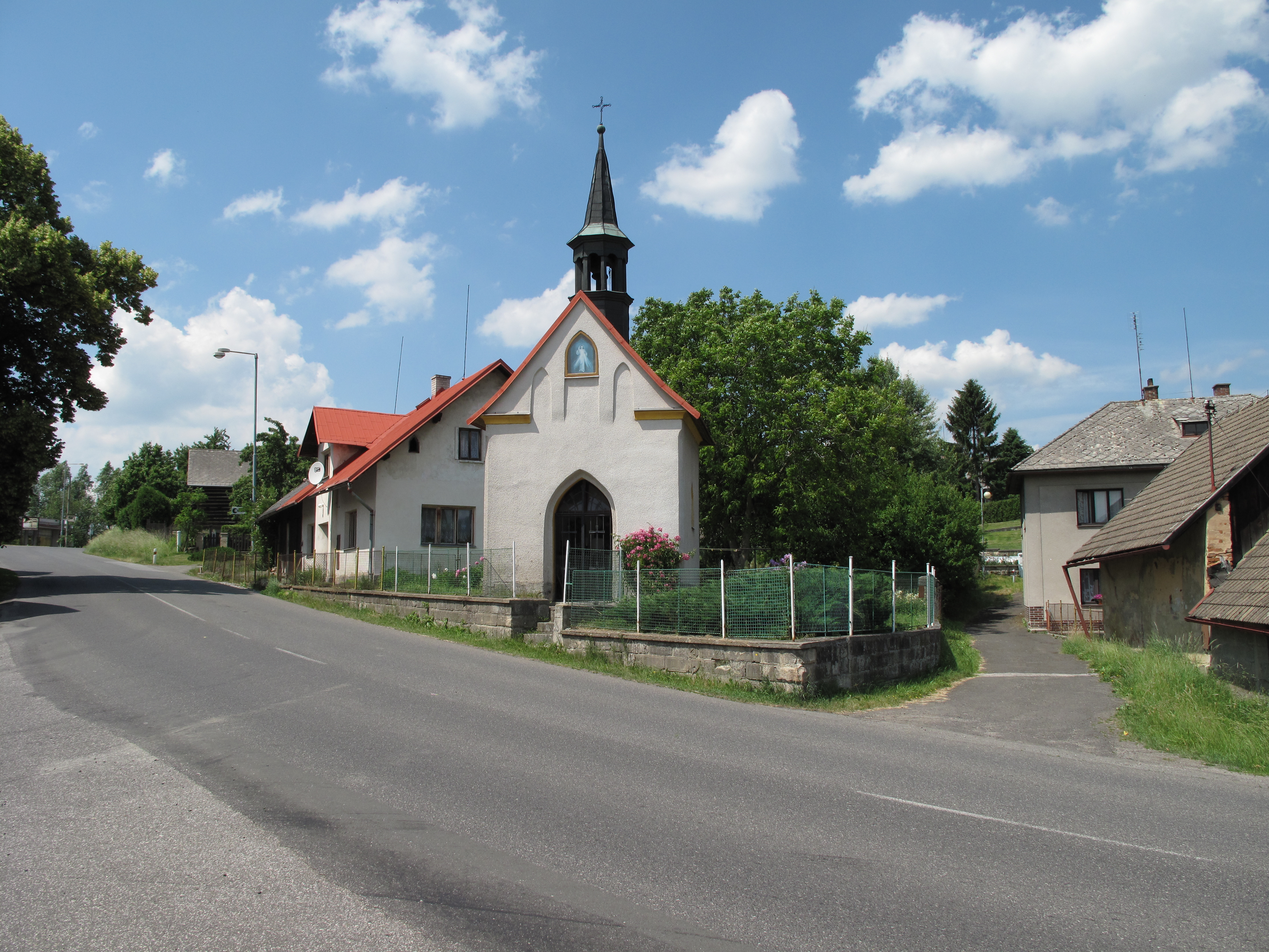 Village chapell in Lesktov village (Radostná pod Kozákovem municipality), Semily District, Czech Republic.